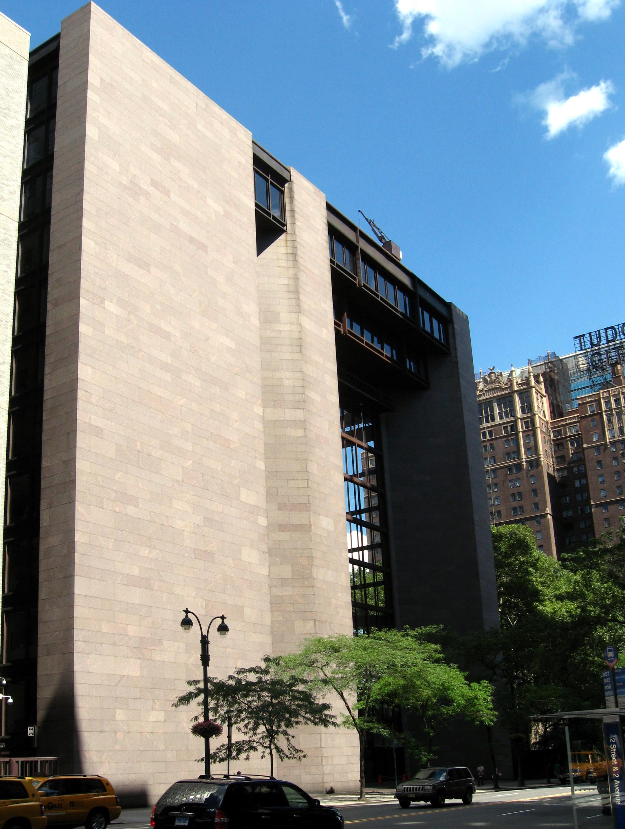 Looking east across 42nd Street at Ford Foundation headquarters on a sunny afternoon. See also File:Ford foundation building 1.JPG